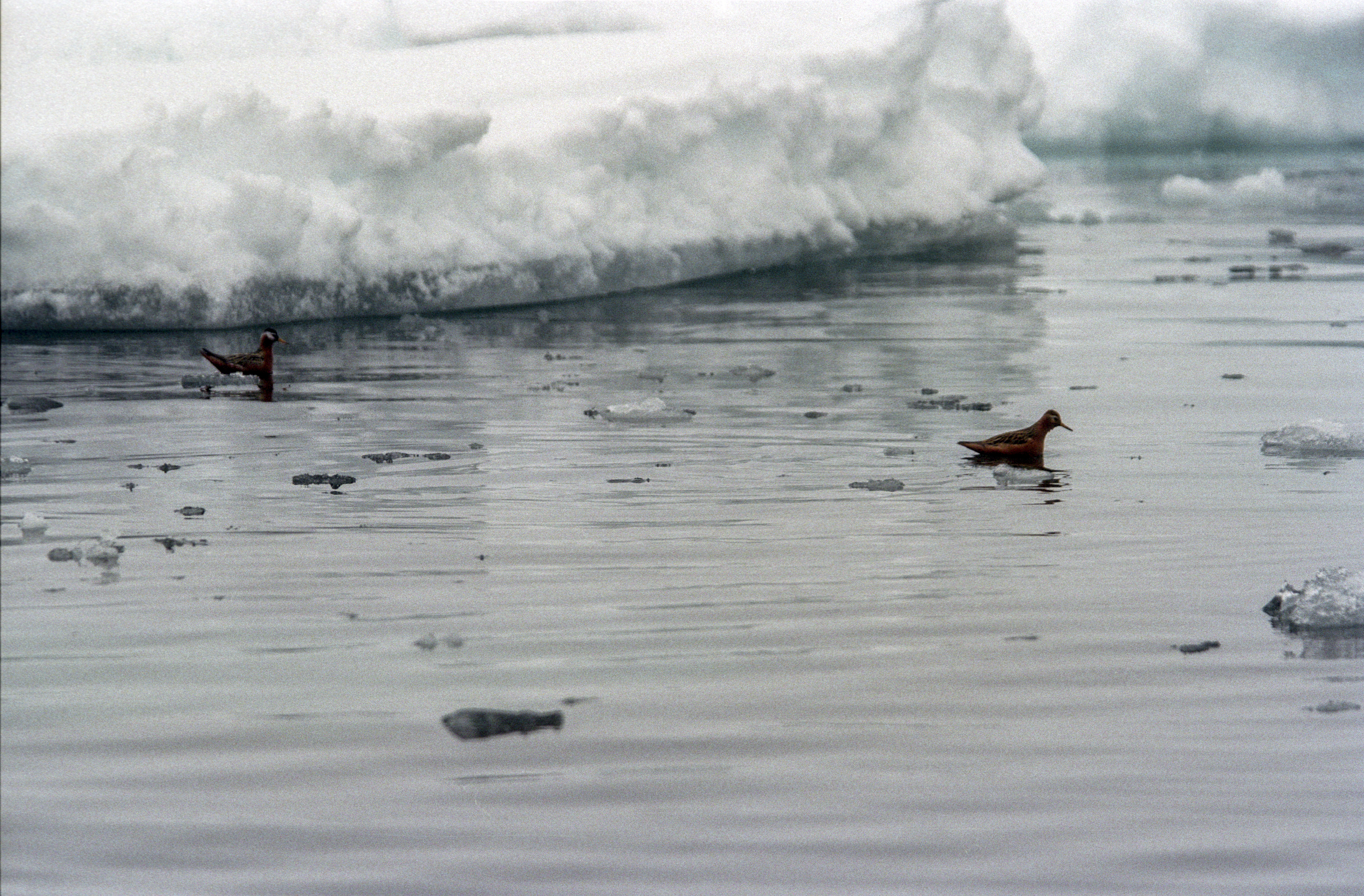 Spitsbergen, Grey Phalaropes in breeding plumage